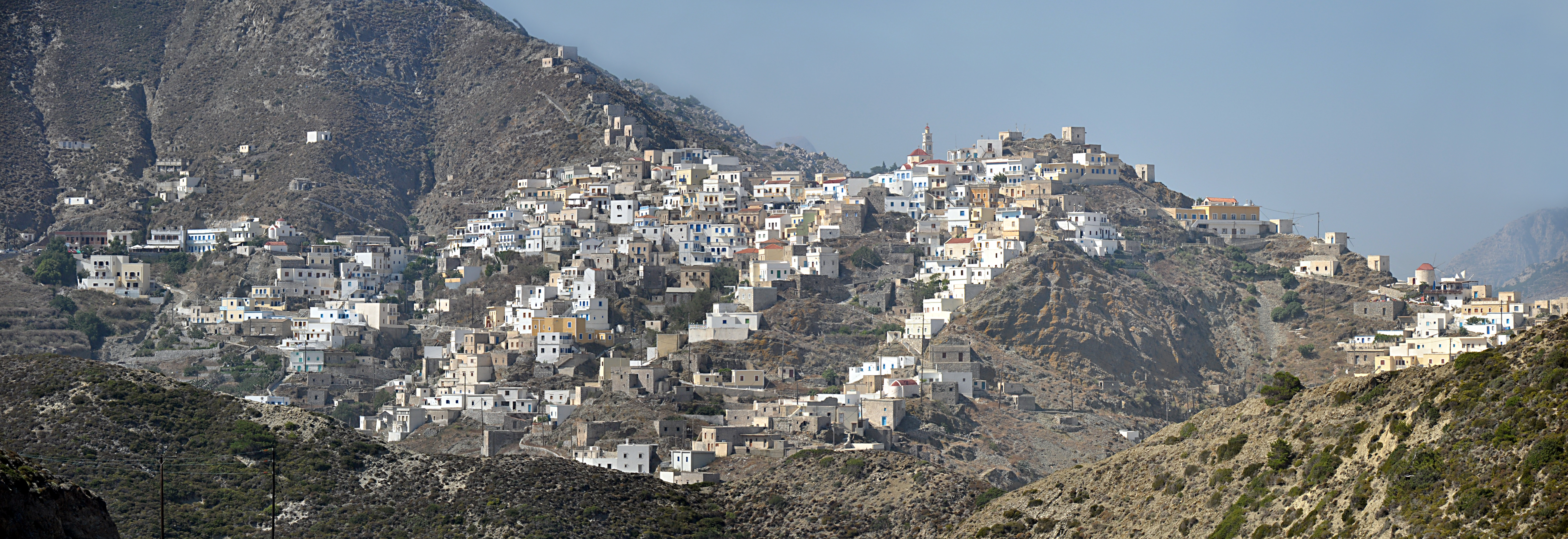 Olymbos, a traditional town of Karpathos, Greece